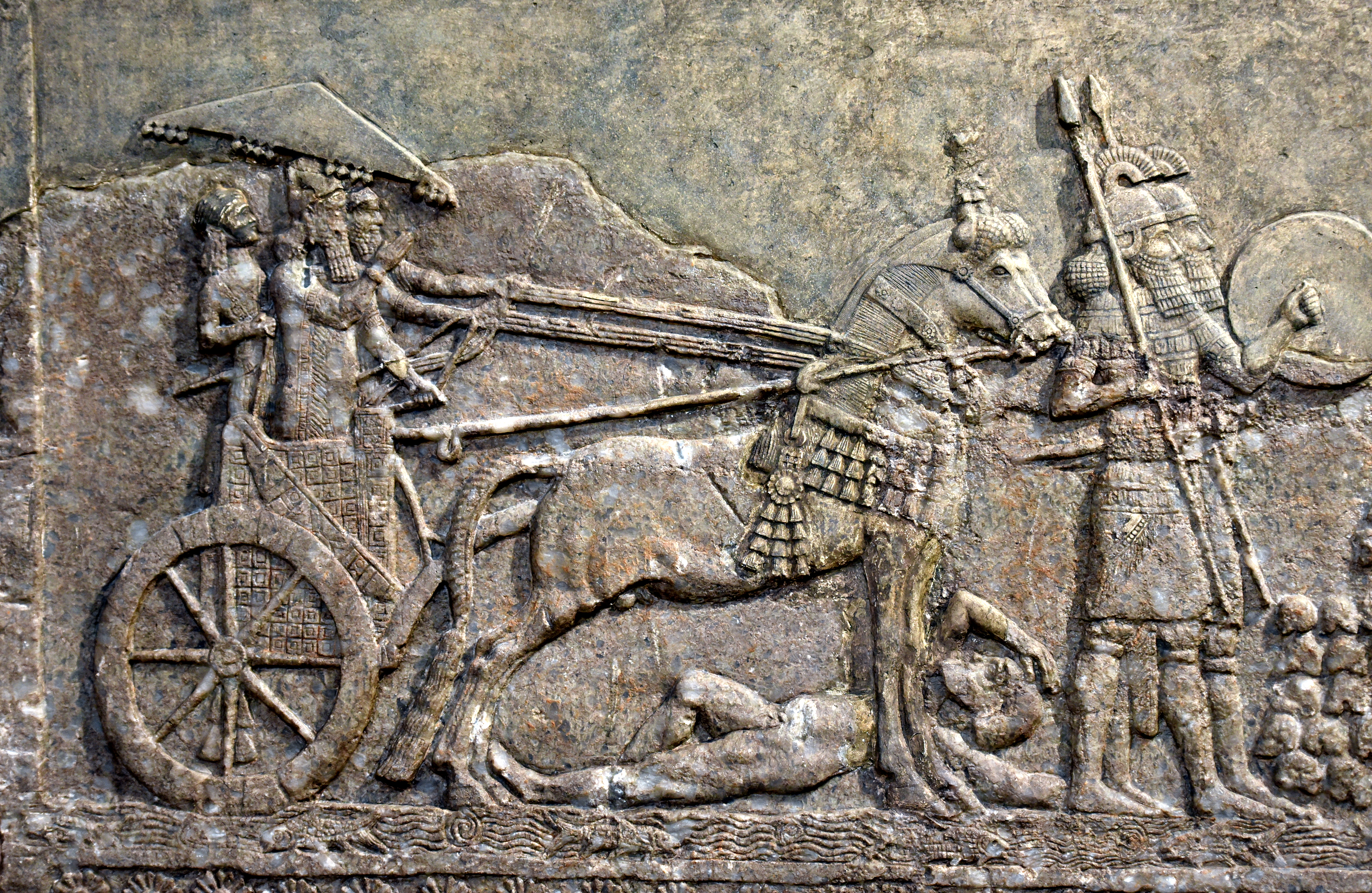 Alabaster bas-relief from the royal palace of Sargon II at Khorsabad, c. 710 BCE. Sargon II, in his royal chariot, under a parasol, observes an Assyrian attack on a city. The Iraq Museum, Baghdad.